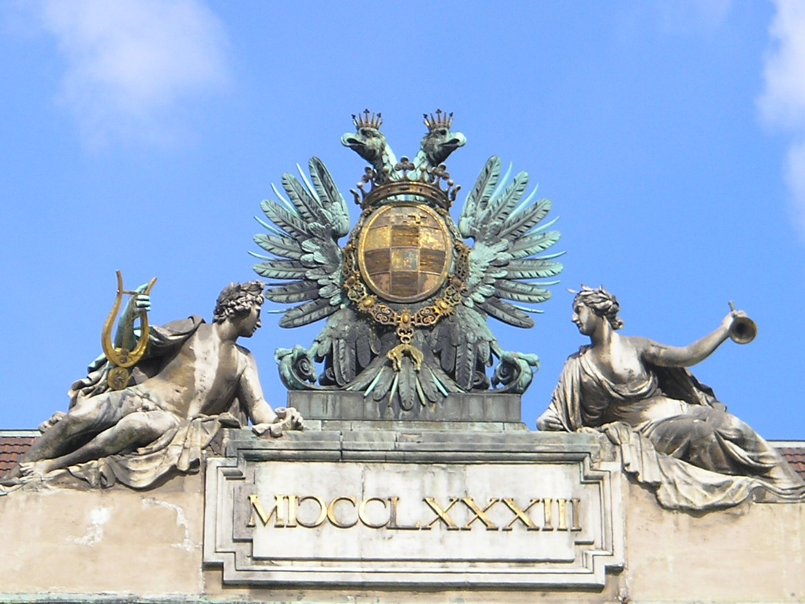 Detail of the Palais Pallavicini in Vienna, at Josefsplatz. Owned by the noble Pallavicini comital family.